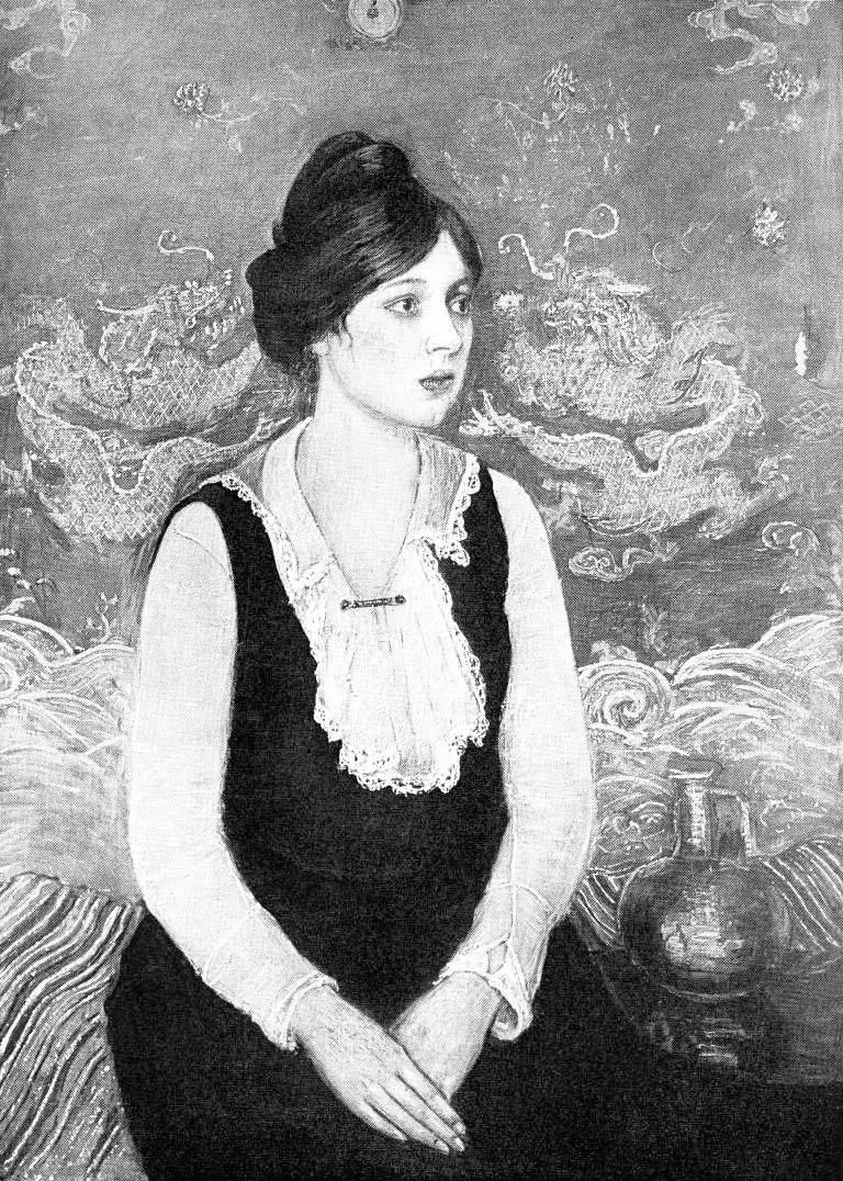 Henry Golden Dearth (died 1918), "The Imperial Dragon," undated. Oil on canvas, 36 x 25 in.